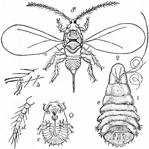 Apple Scale Insect, Mytilaspis pomorum. a) Male b) foot of male e) female c) larva, x20 d) antenna of larva